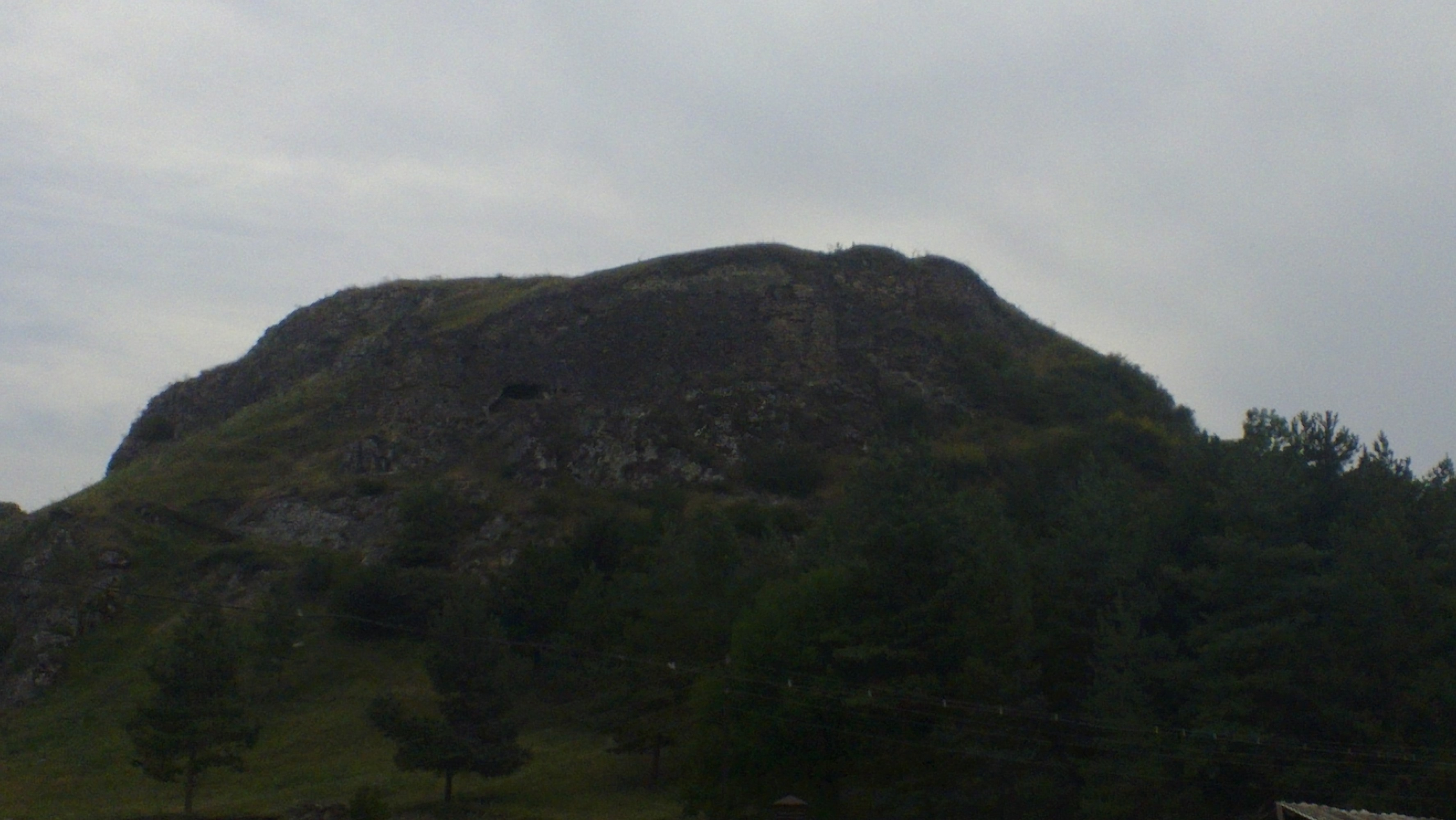 Tavush fortress on June 23 2012.